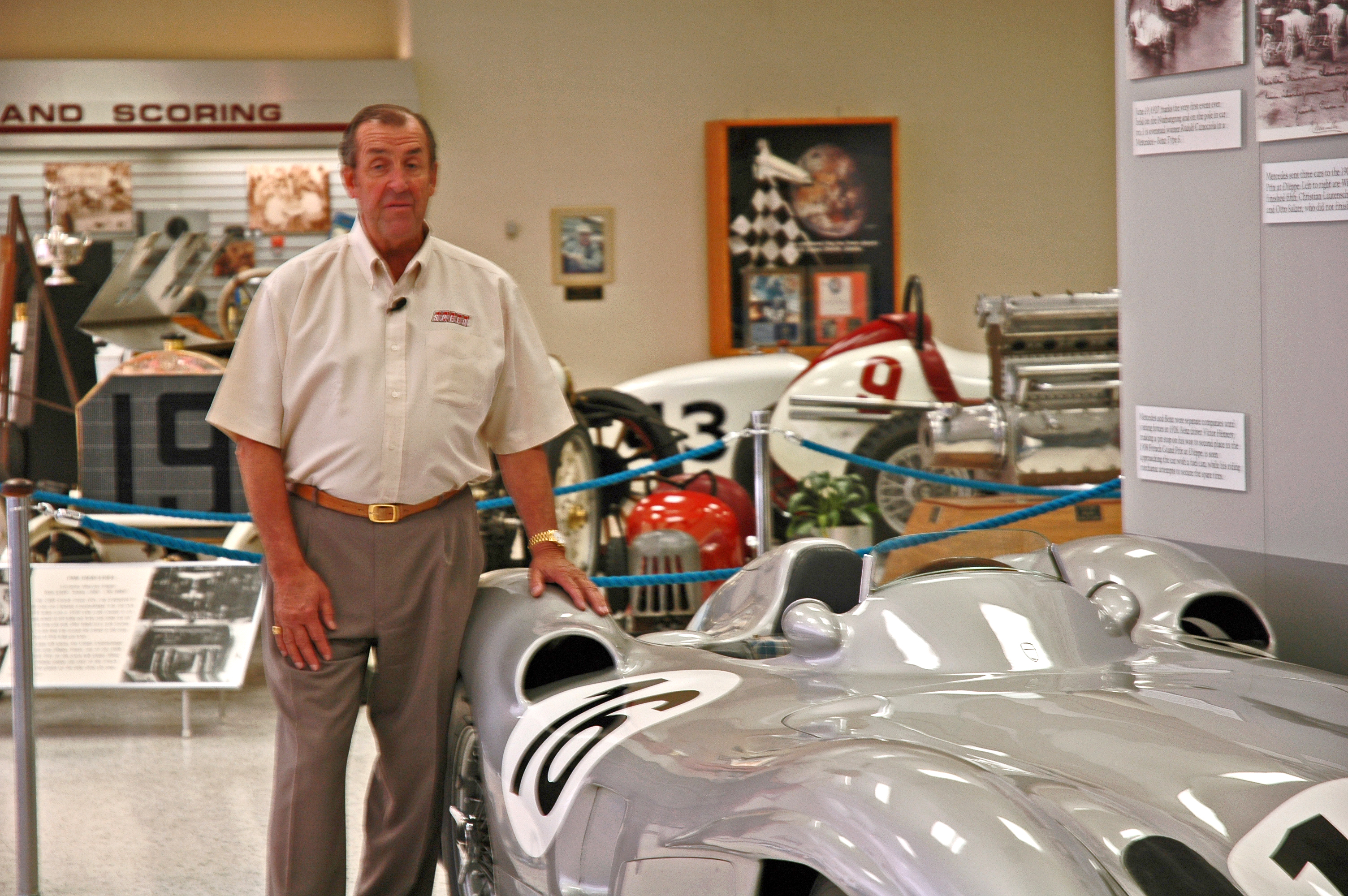 David Hobbs discussing a 1954 Mercedes-Benz W 196 in the Hall of Fame Museum at the Indianapolis Motor Speedway